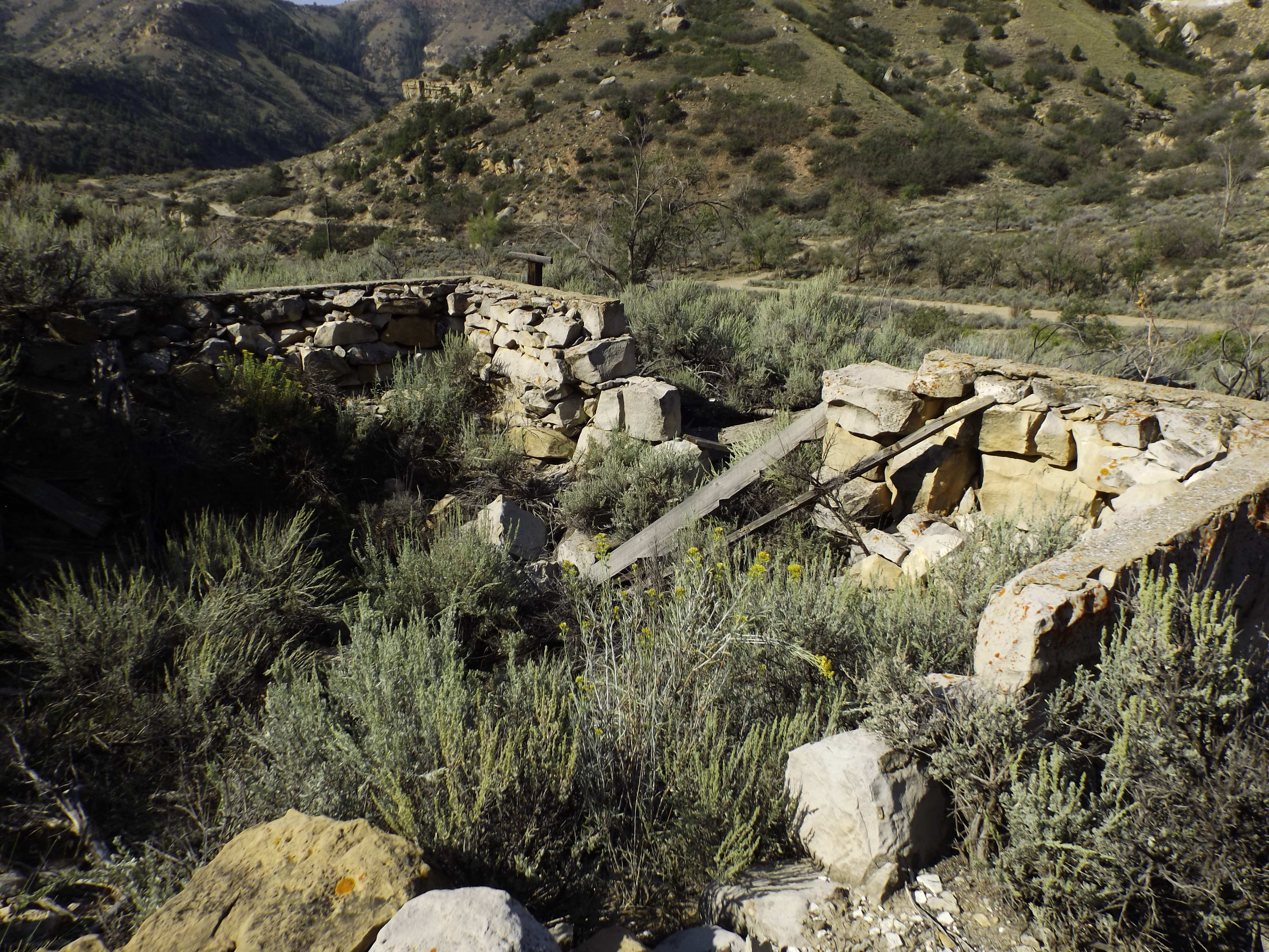 A foundation in the ghost town of Spring Canyon, Utah